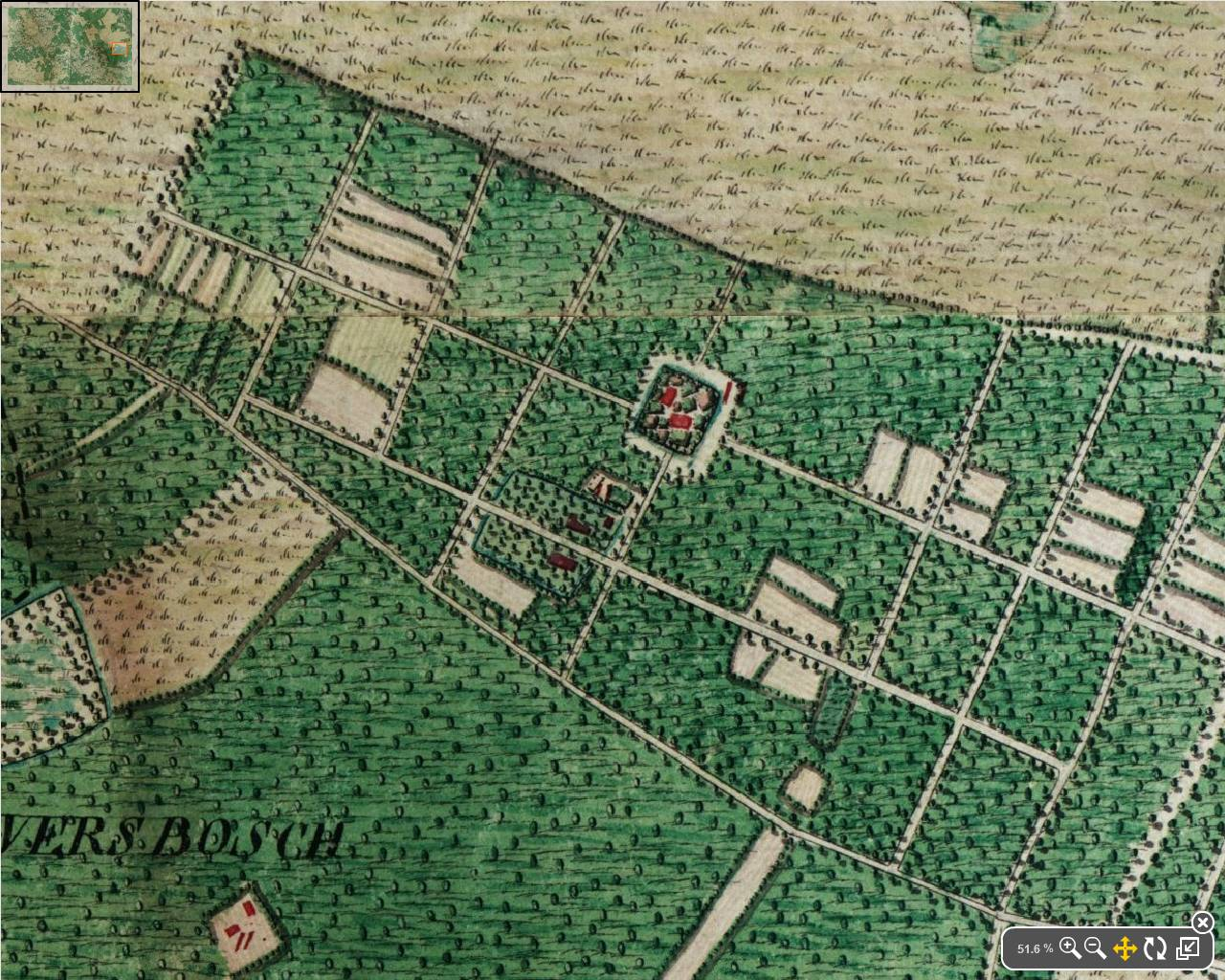 Drongengoedhoeve,_ferraris-kaart, Belgium